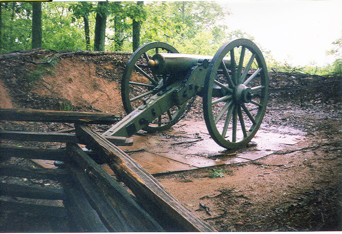 Picture of cannon at Kennesaw Mountain taken by me, May of 2001 at Kennesaw Mountain, Georgia.